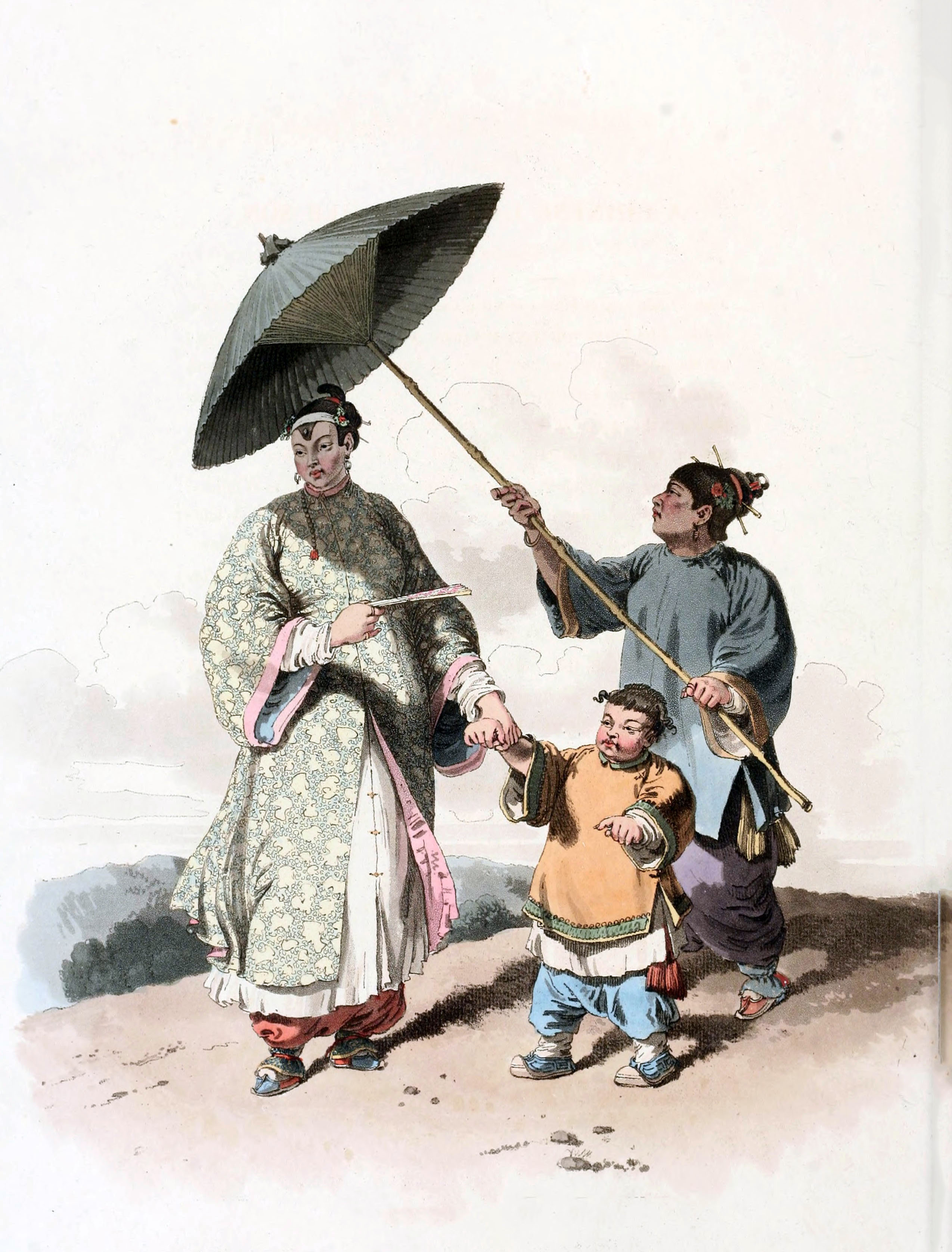 Drawing by William Alexander, draughtsman of the Macartney Embassy to China in 1793. Chinese noble woman wears a long robe of silk or satin, accompanied with under-vest and drawers of taffeta. Her hair is smoothed with oil and closely twisted, and fastened with bodkins of gold and silver; across her forehead she wears a band, from which descends a peak of velvet, decorated with a diamond or pearl, and artificial flowers, are arranged on each side of her head. She wears earrings and a string of perfumed beads. The use of cosmetics was well known among the wealthy Chinese ladies, painting the face both white and red, was in common practice; the eyebrows were brought to be very narrow, black, and arched. The small shoes are elegantly wrought, with ankles covered by loose bandage. Her son has queues of hair on each side of the head, as was the fashion. The servant holds a green parasol over the lady. He wears a ring of brass or tutenag. Image taken from The Costume of China, illustrated in forty-eight coloured engravings, published in London in 1805.